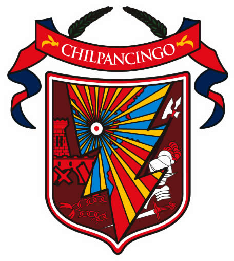 Coat of arms of Chilpancingo.